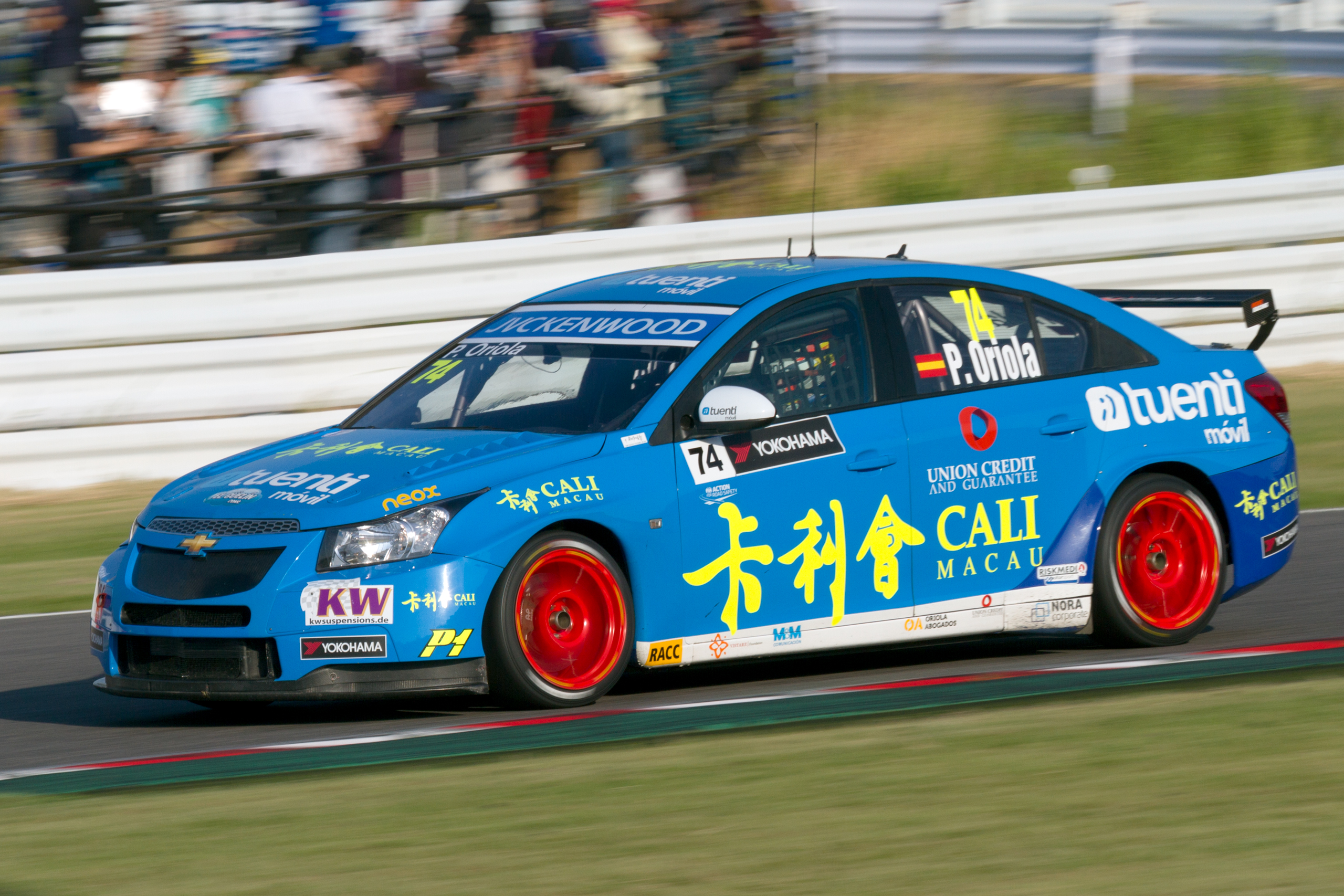 World Touring Car Championship 2013 Race of Japan: Pepe Oriola (Tuenti Racing Team)